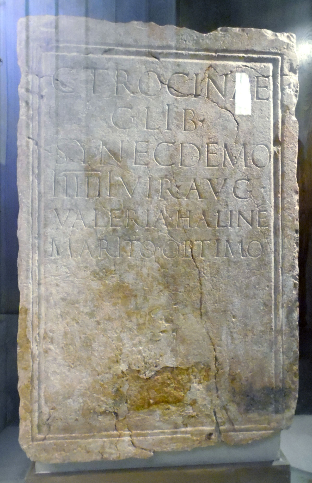 Roman remains in the church of Castelldefels Castle. Limestone block, probably a statue base, 2nd century AD, inscribed with: C. TROCINAE C. LIB. SYNECDEMO IIIIII VIR. AUG. VALERIA.HALINE MARITO.OPTIMO